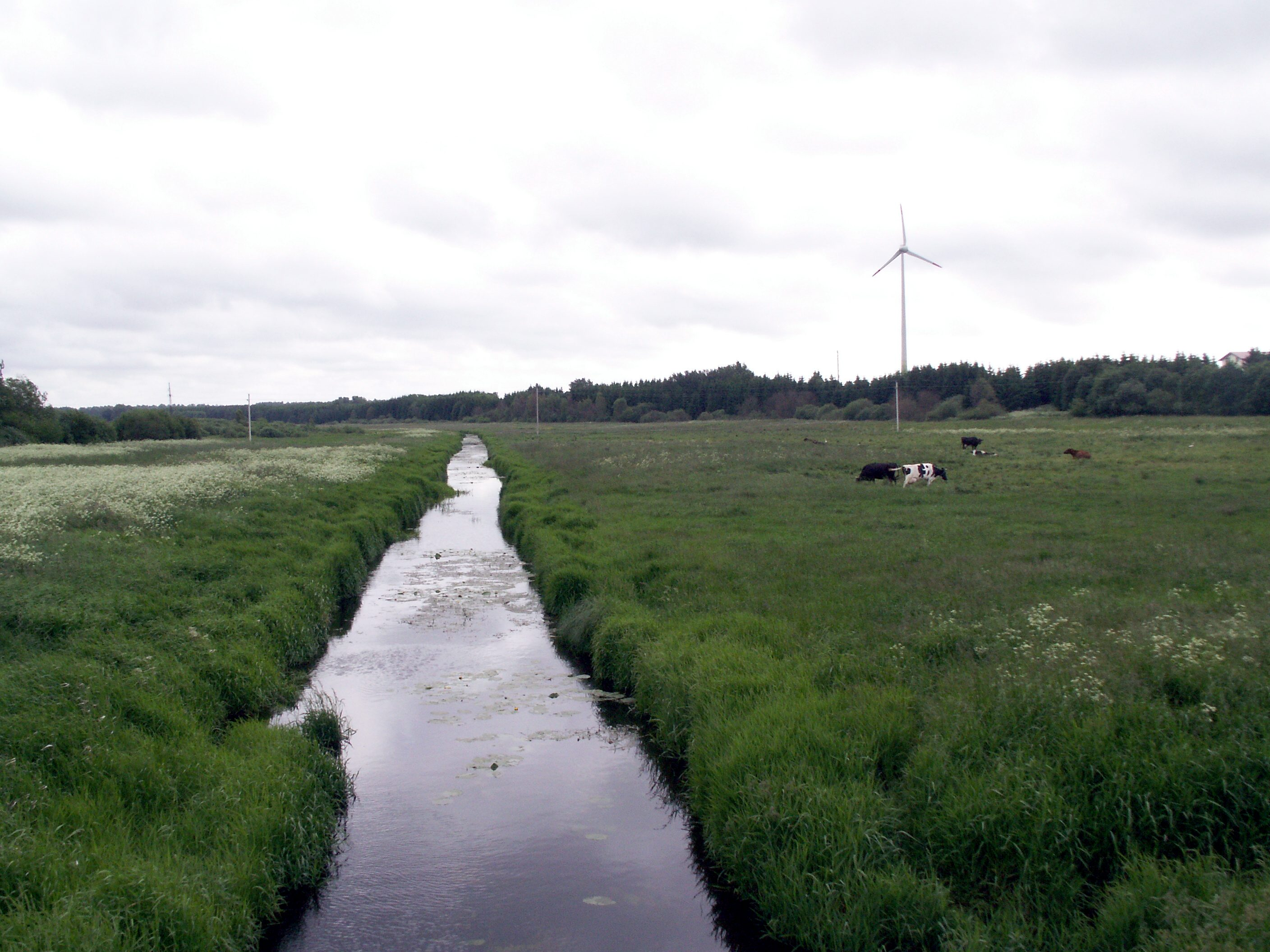 Tenžė river near Prišmančiai, Kretinga district, Lithuania